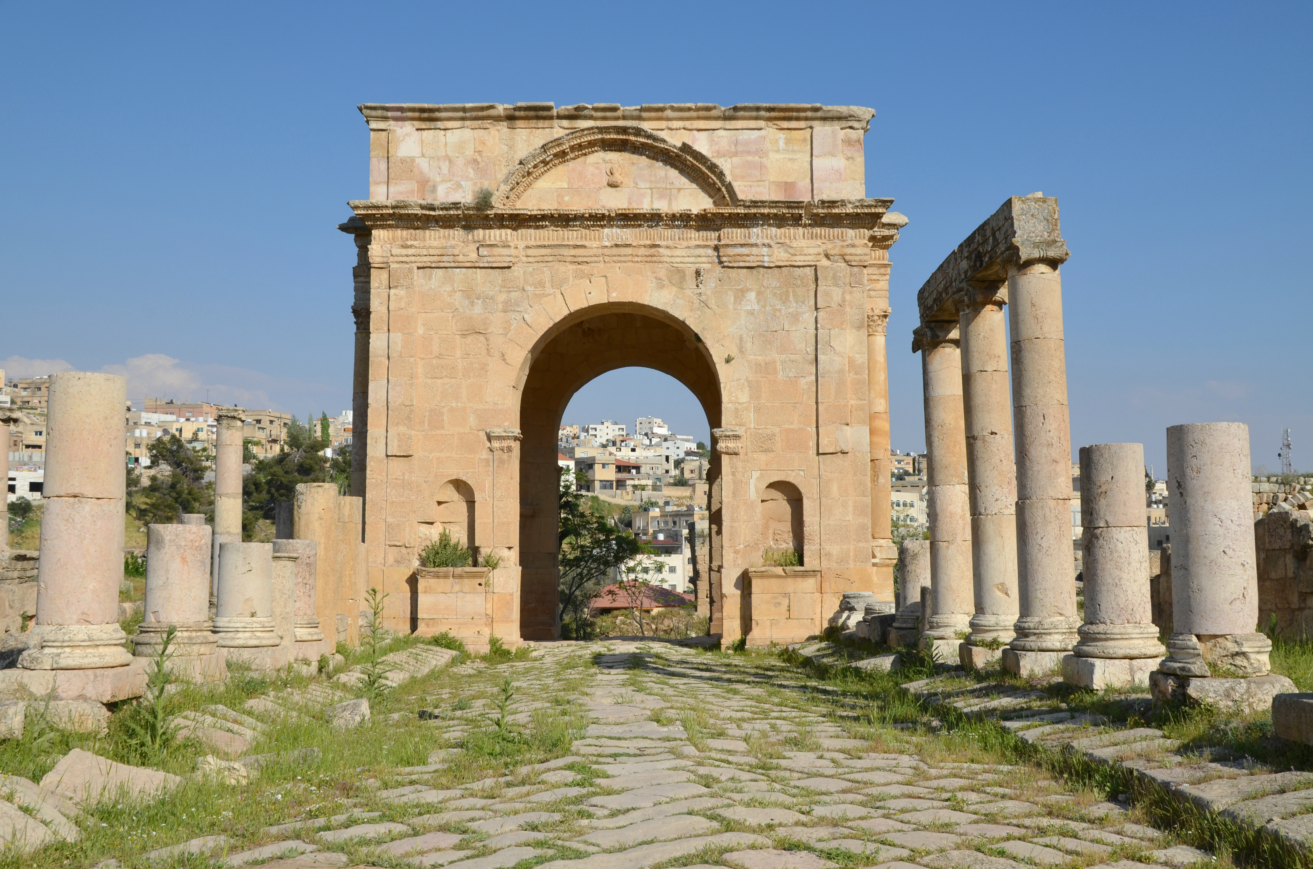 The North Tetrapylon lying at the intersection of the Cardo with the North Decumanus, a square-shaped structure with a gate on each side and topped with a dome, erected between 165 and 170 AD, Gerasa, Jordan